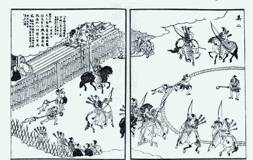 『尾張名所図会』(1845年発行)より。江戸後期。From the "Owari meisho zukai". Late Edo period.